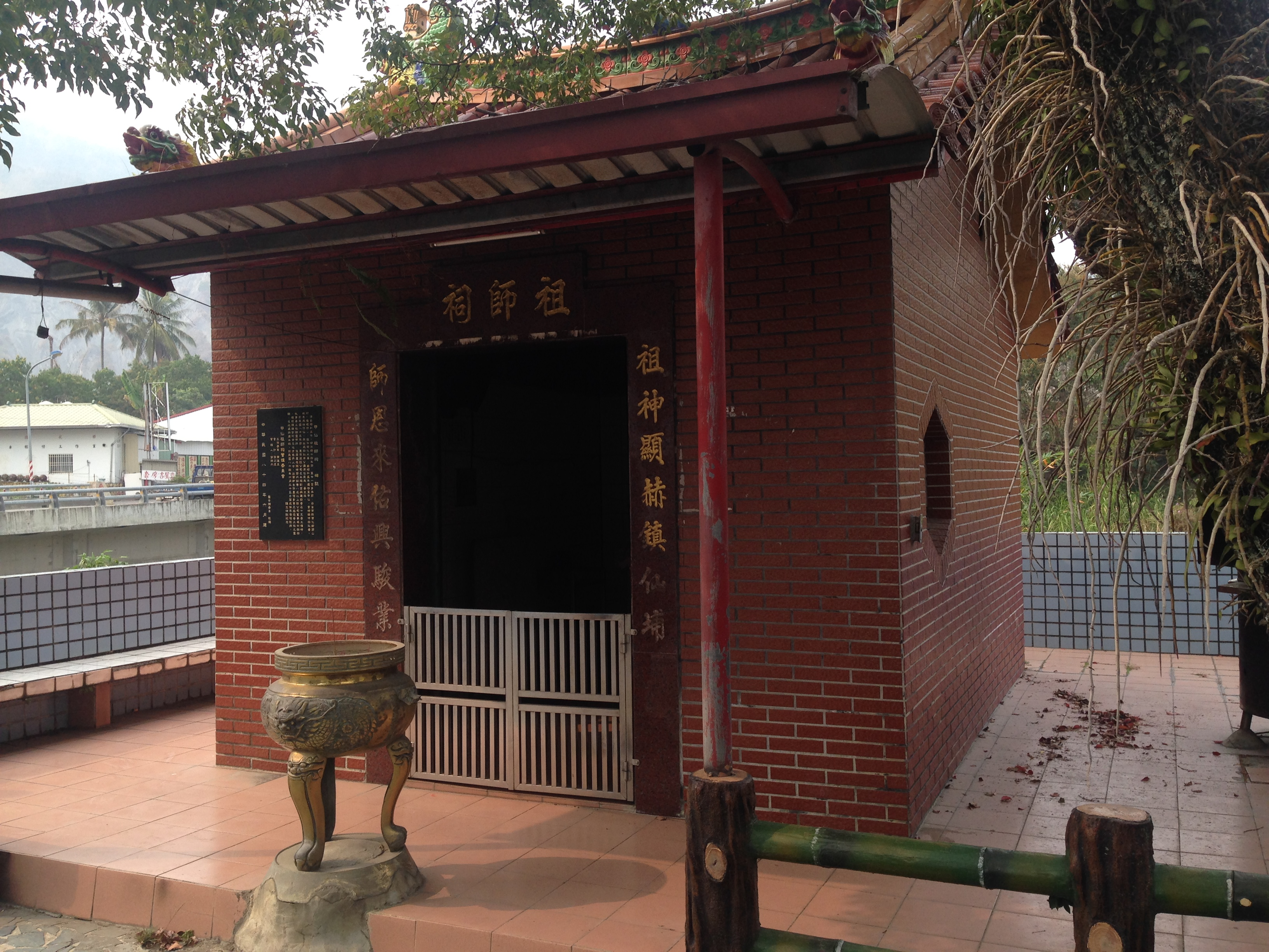 The Shrine of indigenous Taivoan people in Sisheliao, Kaohsiung.